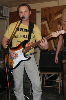 Concert in Donezk